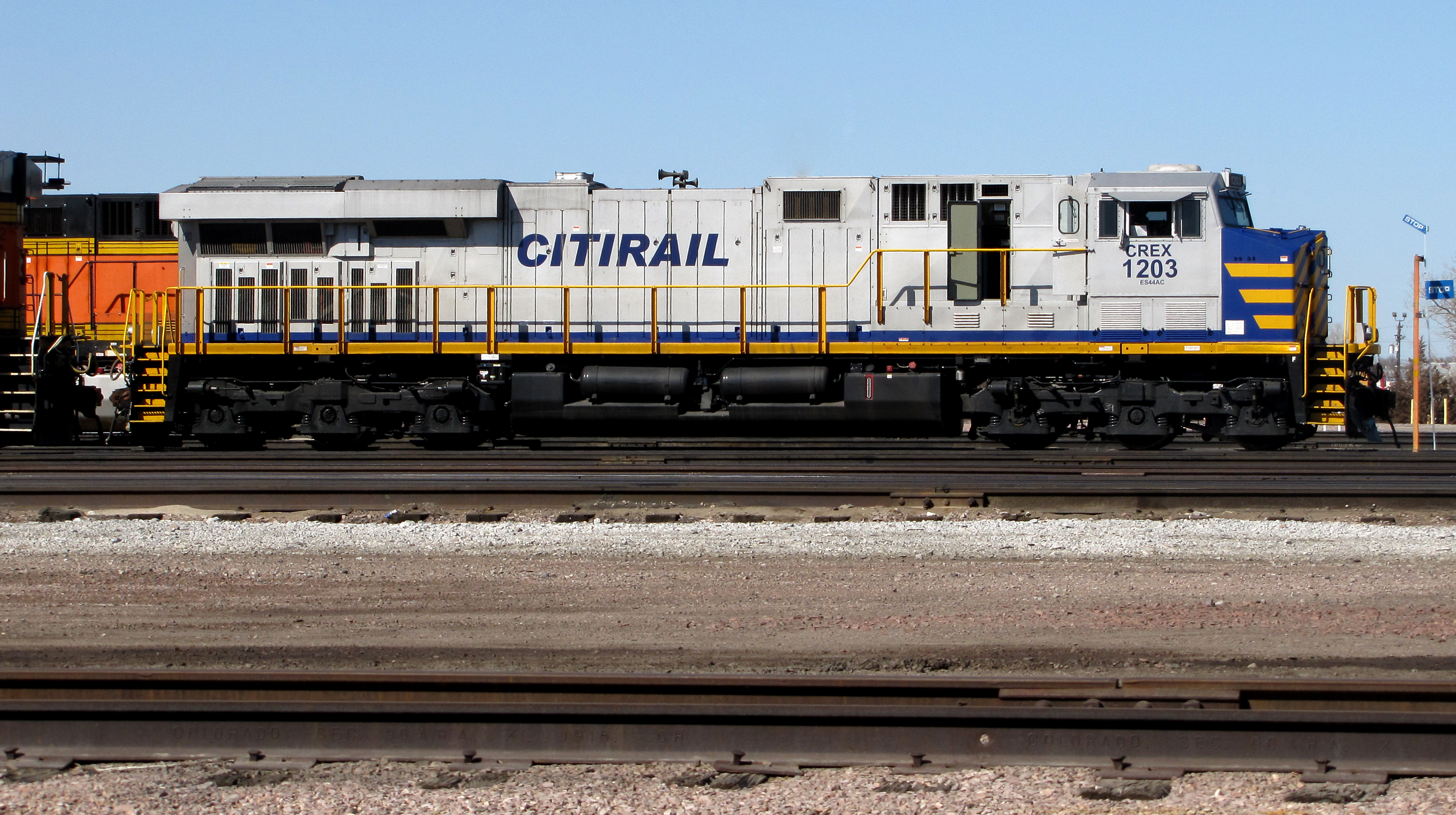 Citirail (CREX) ES44AC no.1203 in March 2014.